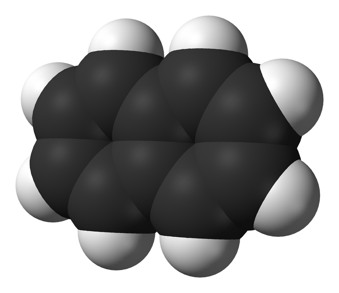 Space-filling model of the naphthalene molecule, C10H8, as found in the crystal structure. X-ray crystallographic data from Acta Cryst. (1982). B38, 2595-2600.